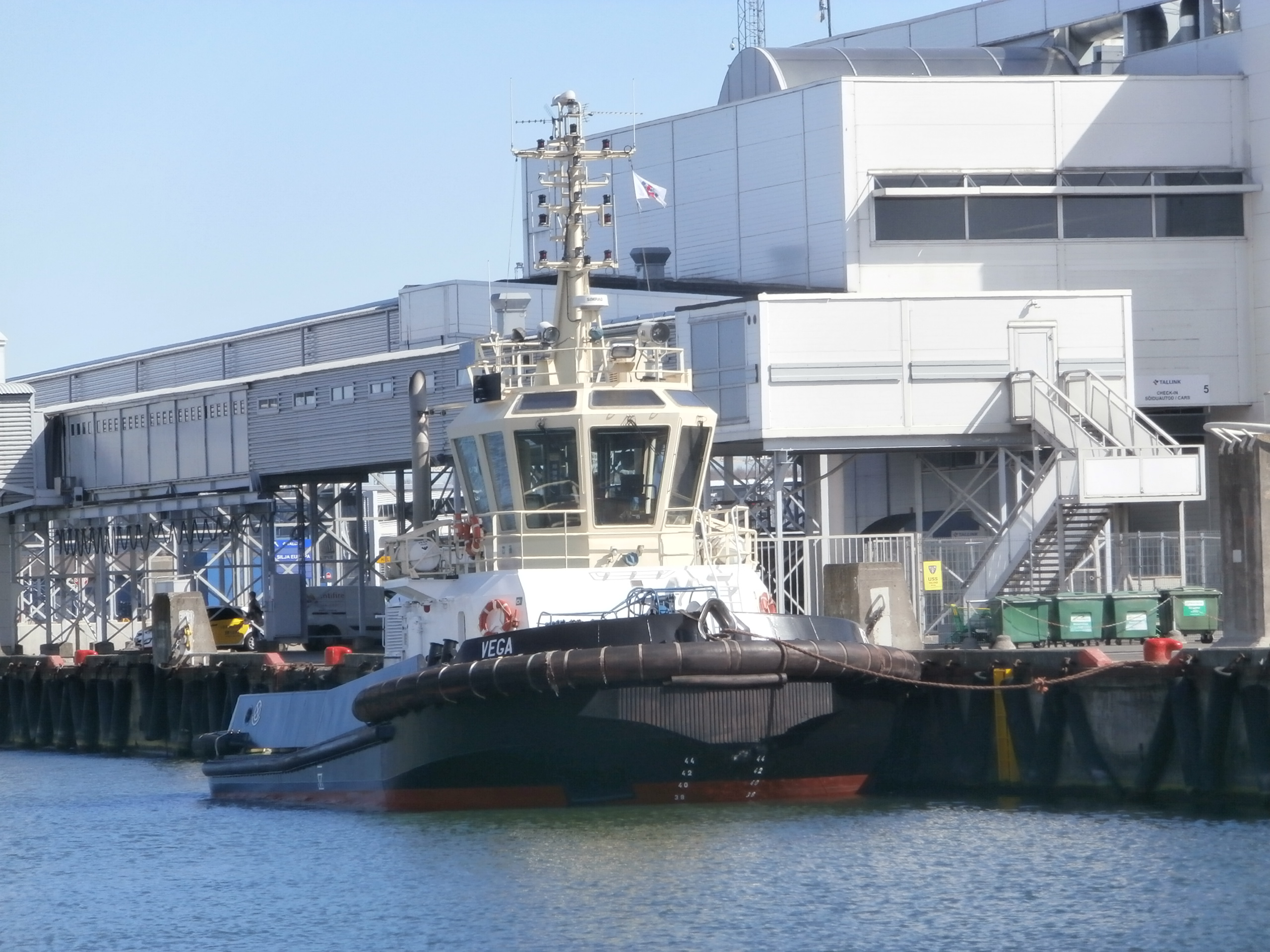 Tugboat Vega at quay 8 in Tallinn 25 April 2014